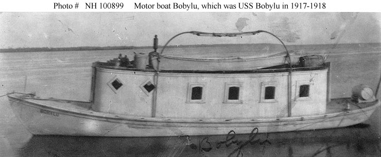 North Carolina Fisheries Commission motorboat Bobylu prior to her United States Navy service as patrol boat USS Bobylu (SP-1513)